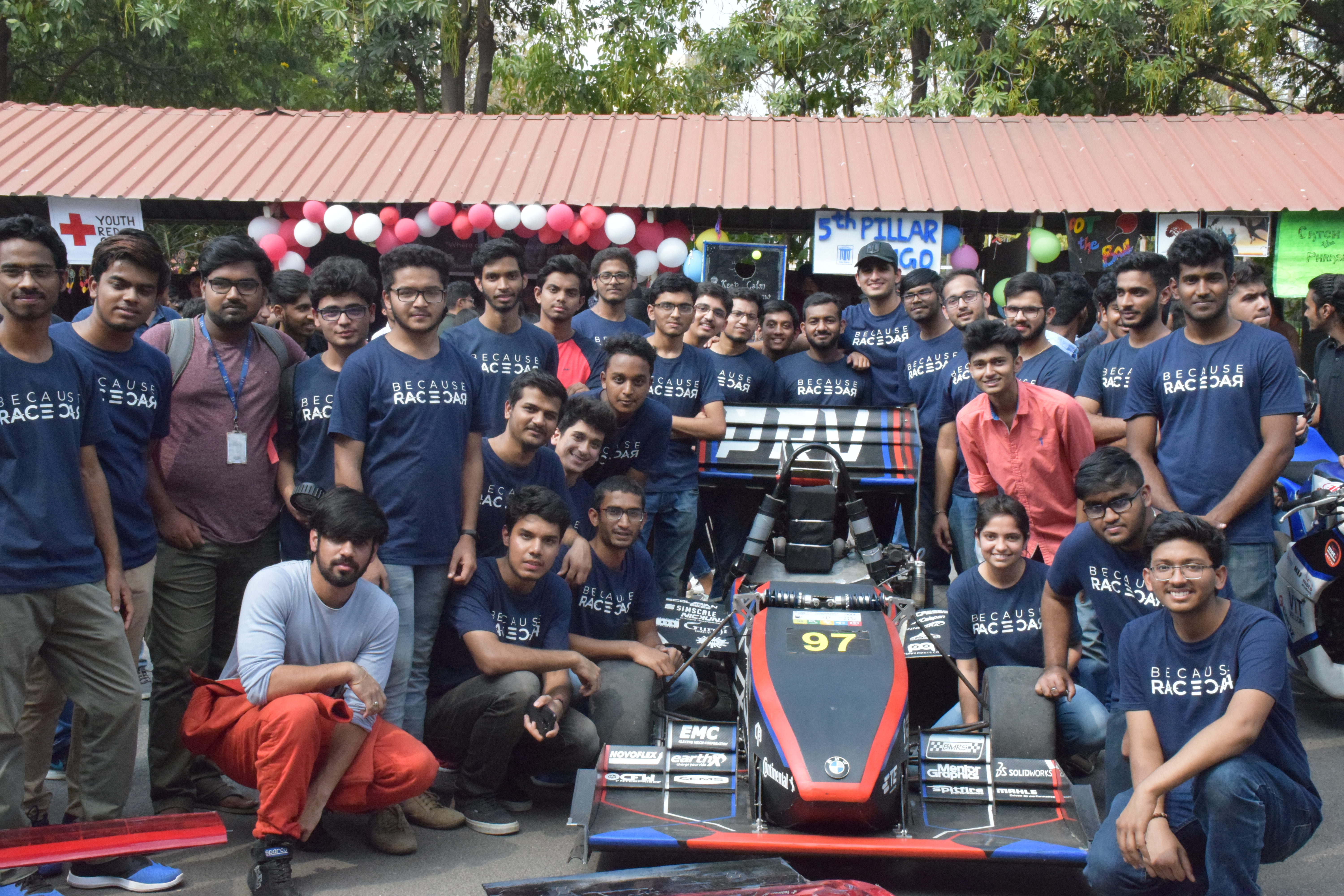 PRV18 Team Photo during Riviera'18